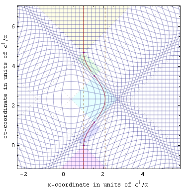 Radar-separation hypersurfaces[1] for an accelerated traveler, defined as the average proper-time of sending/receiving a light signal to/from an event i.e. τevent = (τsend+τreceive)/2. Using the axis-labeled units, this is basically a one-gee (~1[ly/y2]) constant proper-acceleration round-trip which takes 4 traveler years to complete. Four purple dots mark engine on/off events as well as the two mid-voyage points at which the direction of acceleration is reversed. Null trajectories extending forward and back from these points define twenty-five separate event-regions in space-time. These zones (marked off by faint dotted lines) have blue radar-isochrons, and radar-distance grid-lines, drawn in to characterize for events from the accelerated traveler perspective. Separations in this case are at intervals of 0.2 (years or lightyears) from the traveler's radar-perspective. The two vertical dashed lines (brown) represent the world lines of home and destination sites that are stationary in the x-ct coordinate system here. Following the separation between start and return isochrons into the flat-space region to the right will allow you to measure the triptime elapsed on the traveler's clocks using the ct-axis calibration here.